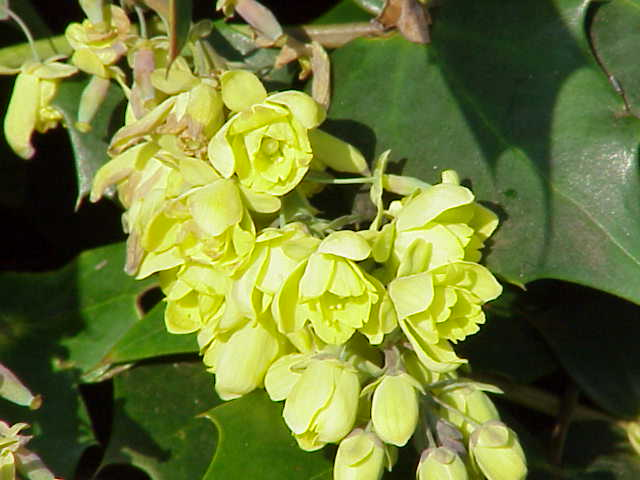 Species: Mahonia japonica Family: Berberidaceae Image No. 2